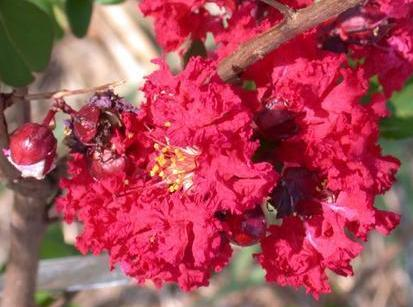 Crepe Myrtle, Crape Myrtle 'Dynamite' (Lagerstroemia indica)